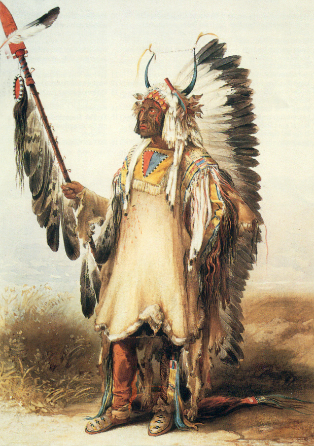 Mató Tópe, Mandan Chief